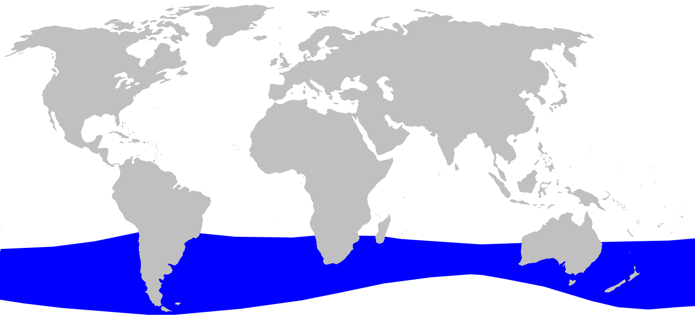 Distribution of Mesoplodon layardii